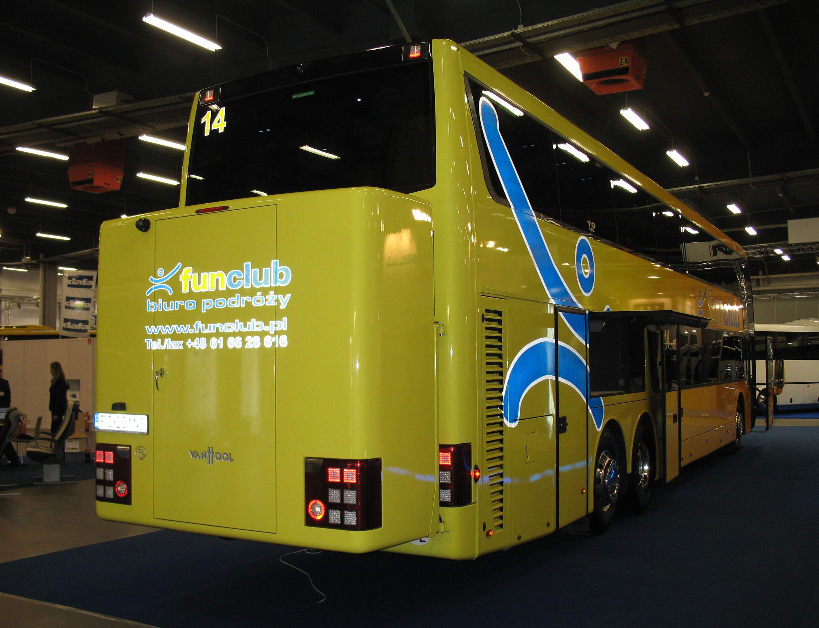 Van Hool TD927 Astromega coach (#14) in Kielce, Poland. Built 2010, Fun Club Poznań operator.